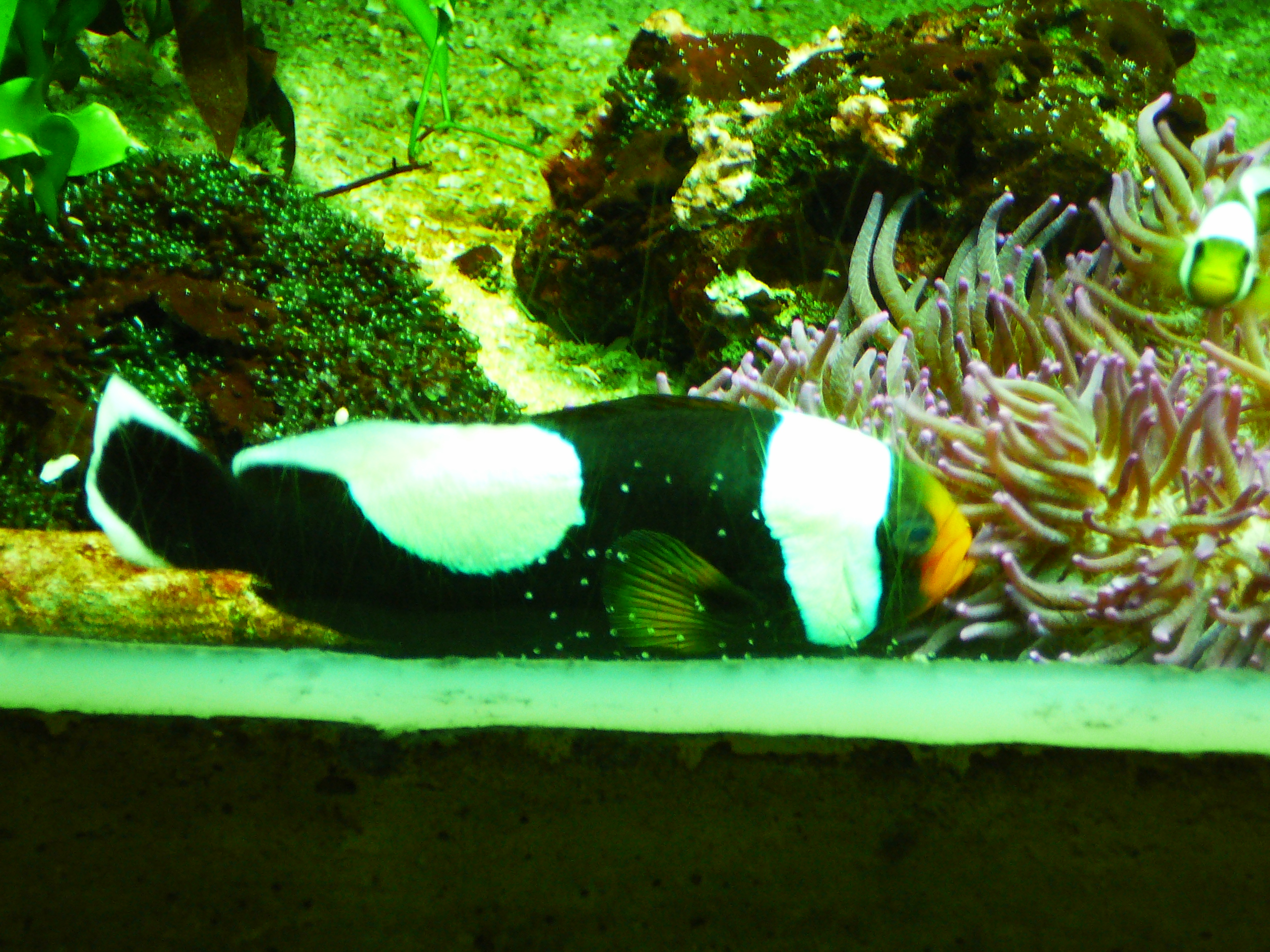 Amphiprion polymnus